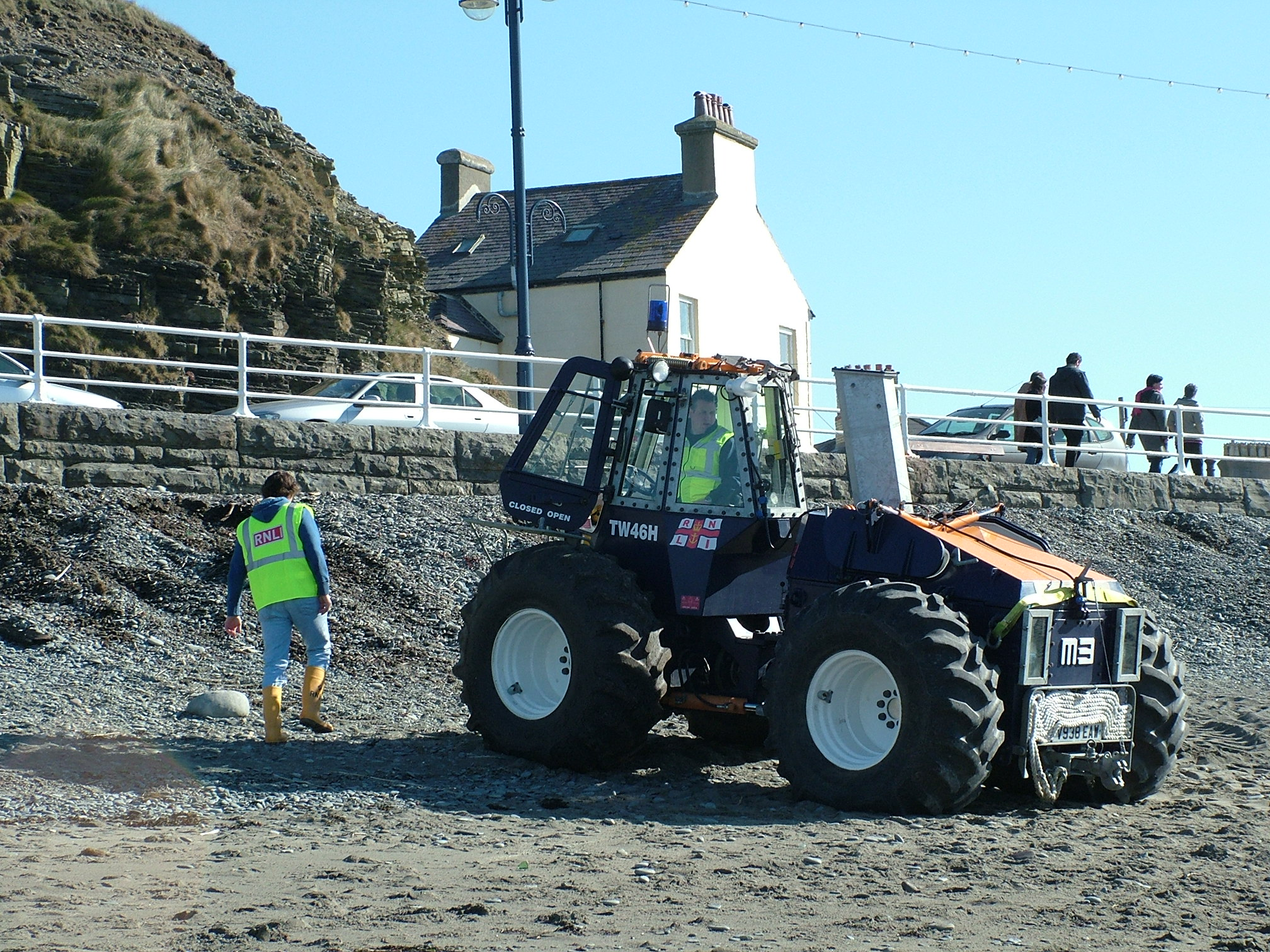 The Talus MB-4H launch tractor (TW-46H) used by the RNLI for towing lifeboats out to sea (until they can float independently) "playing" on the shingle beach at Aberystwyth.